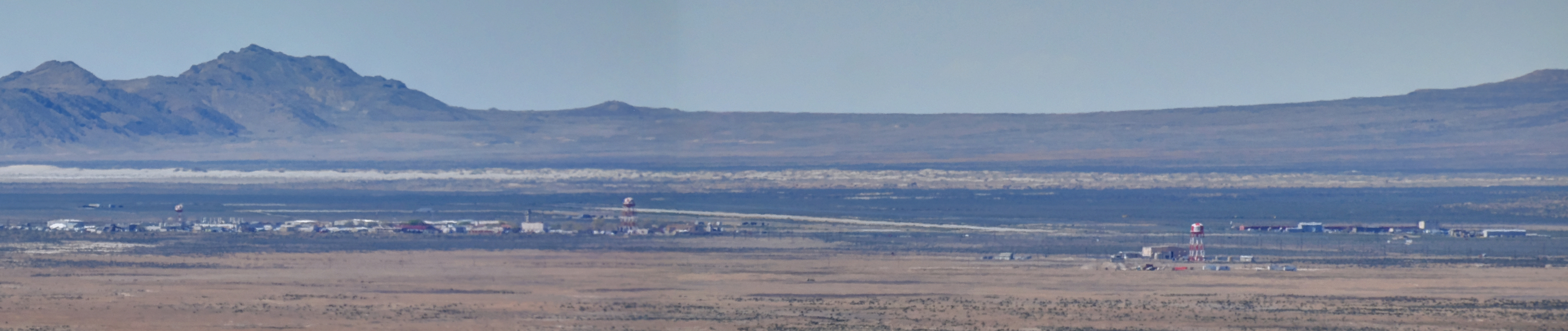 View from Simpson Springs camping grounds looking North, Northwest towards Dugway Proving Grounds in Utah, USA.